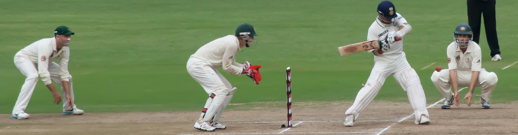 Sachin Tendulkar get to 14000 runs in Test cricket on Day 2 of the Second Test of the Border Gavaskar Trophy 2010/11. Michael Hussey is fielding at leg slip, and Simon Katich is fielding at short leg; Tim Paine is keeping wicket. Scorecard.